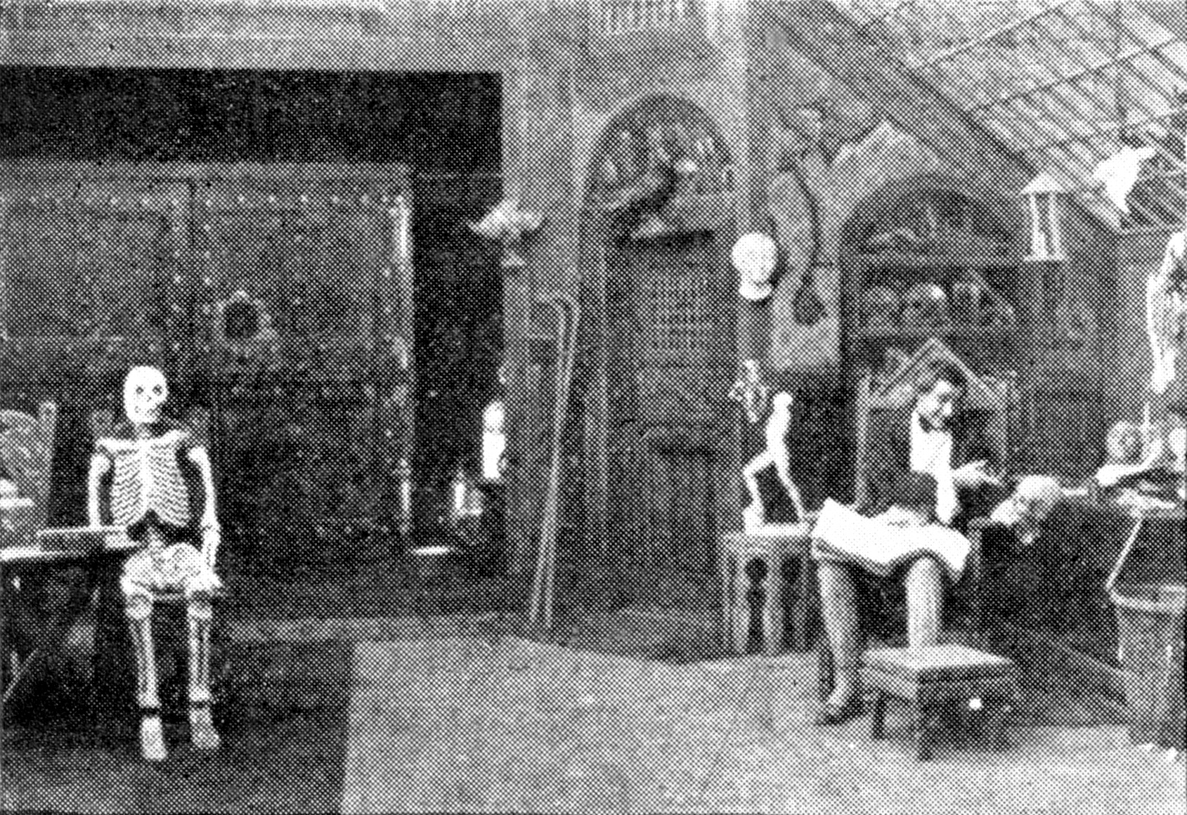 A still from the film Frankenstein (1910), showing Augustus Phillips as Victor Frankenstein.